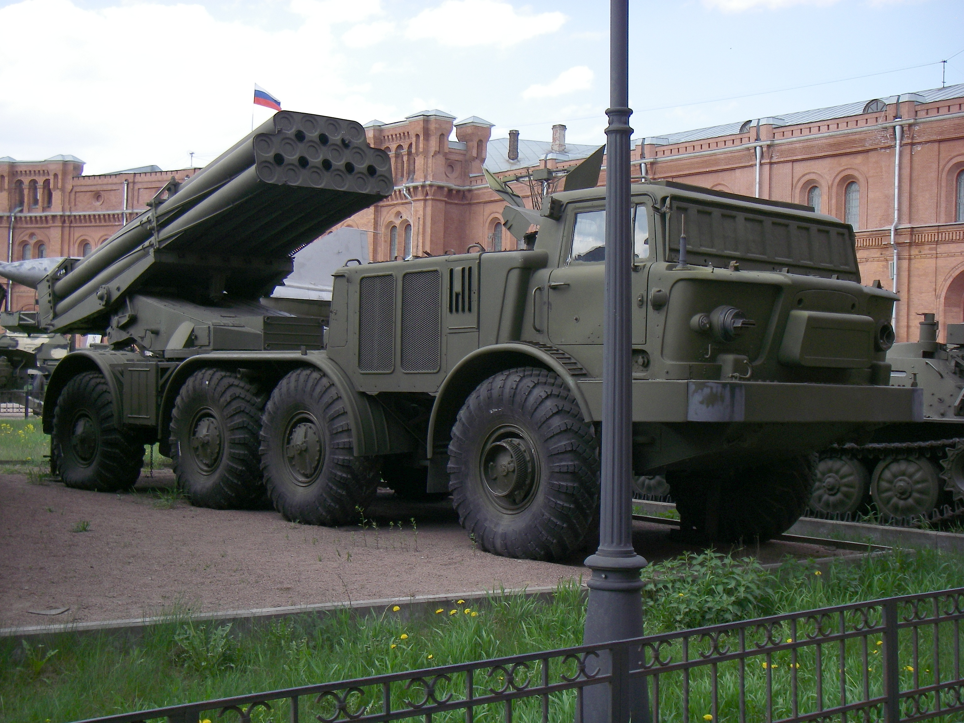 Launcher 9P140 of 220-mm multiple rocket launching system 9K57 «Uragan» in Saint-Petersburg Artillery museum